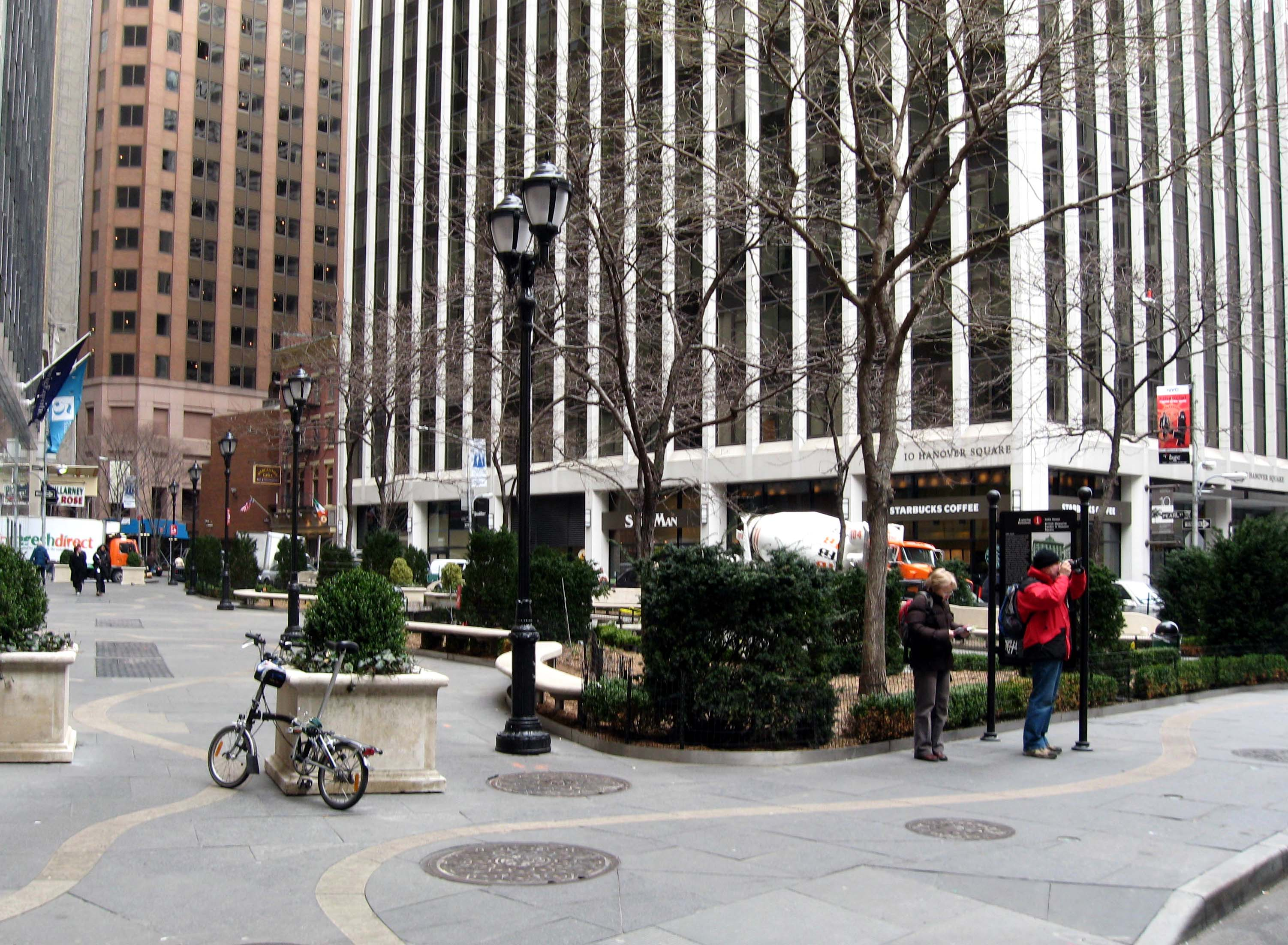 Hanover Square from the north side of India House, on a cloudy day in early spring.